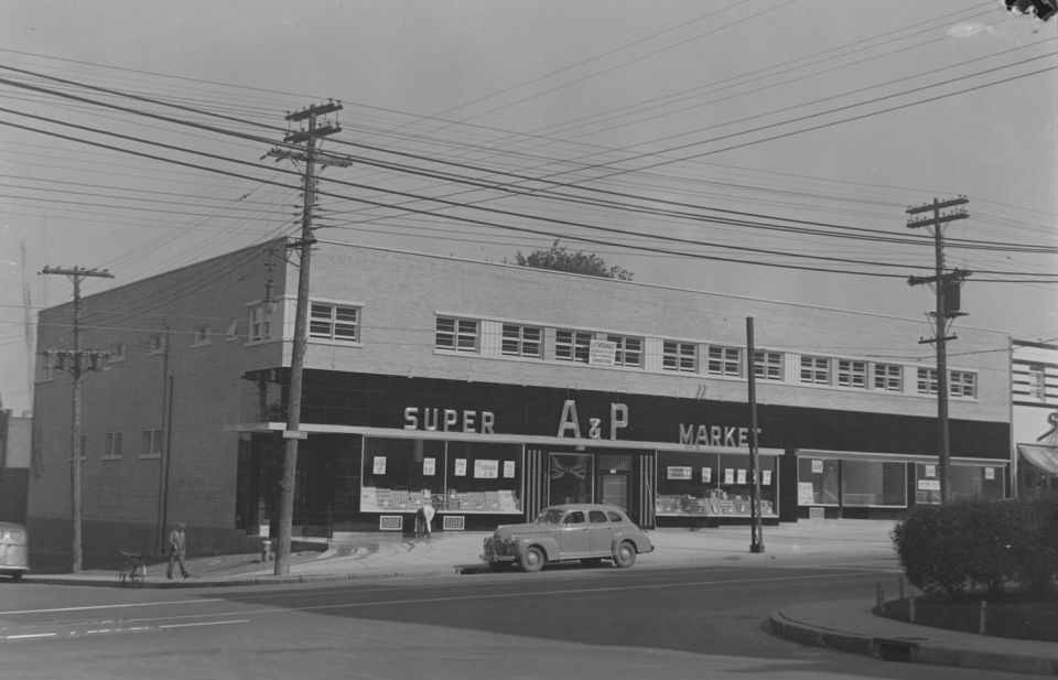 We see A&P supermarket located at 5405 Queen Mary St. in Montreal